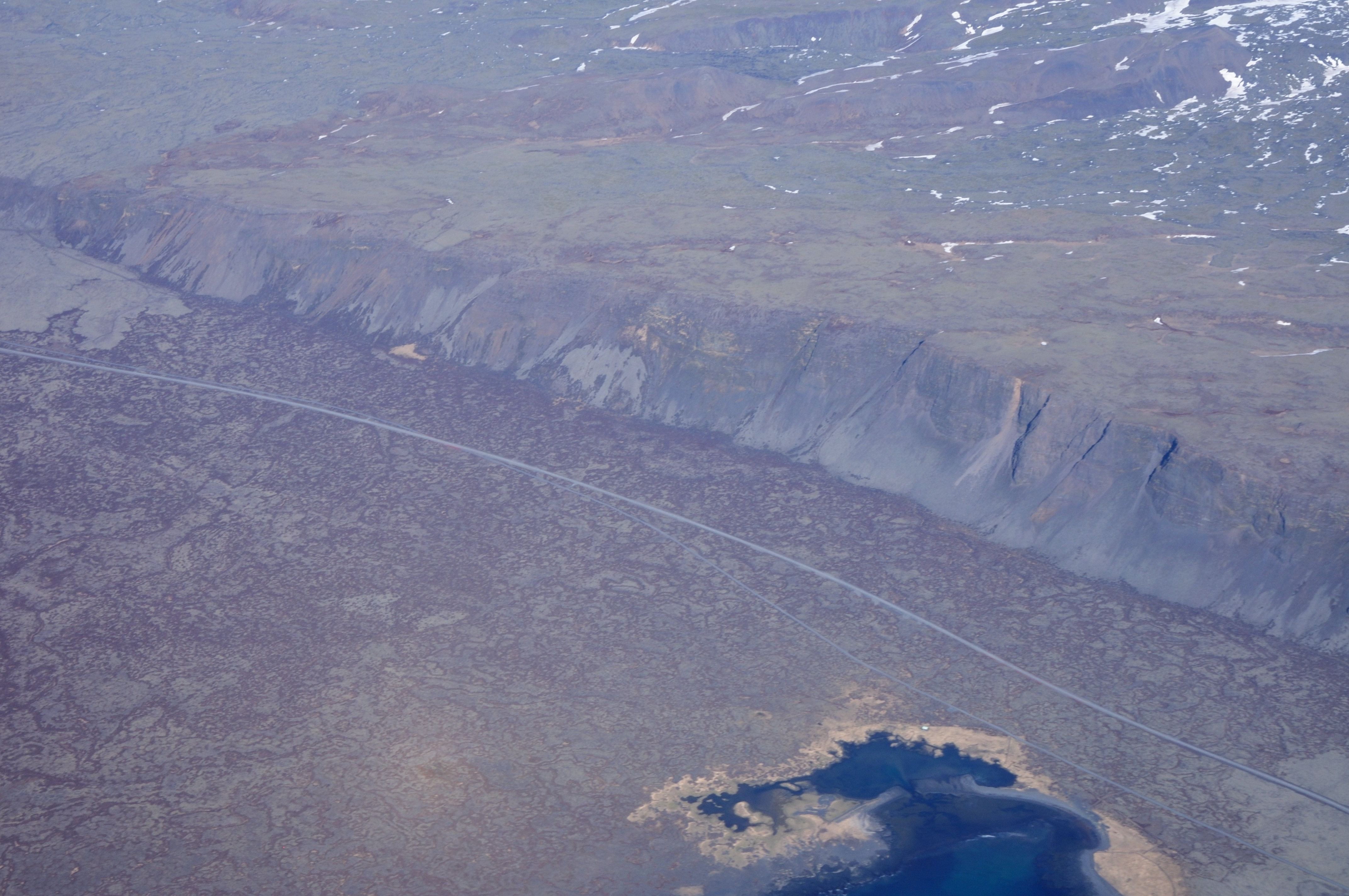 Iceland, picture take during the approach into KEF, unfortunately through a pretty dirty window.